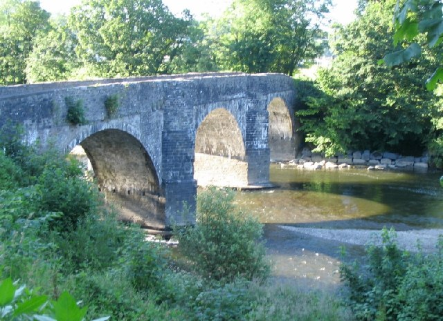 Bridge over the river Towy near Nantgaredig. This bridge is on the road to Nantgaredig, which is to the north, on the other side of the bridge in the picture.